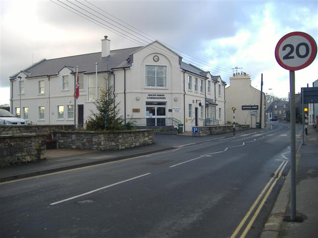 Christmas day in Ballasalla (3) Malew Parish Commissioners and Doctors surgery building.